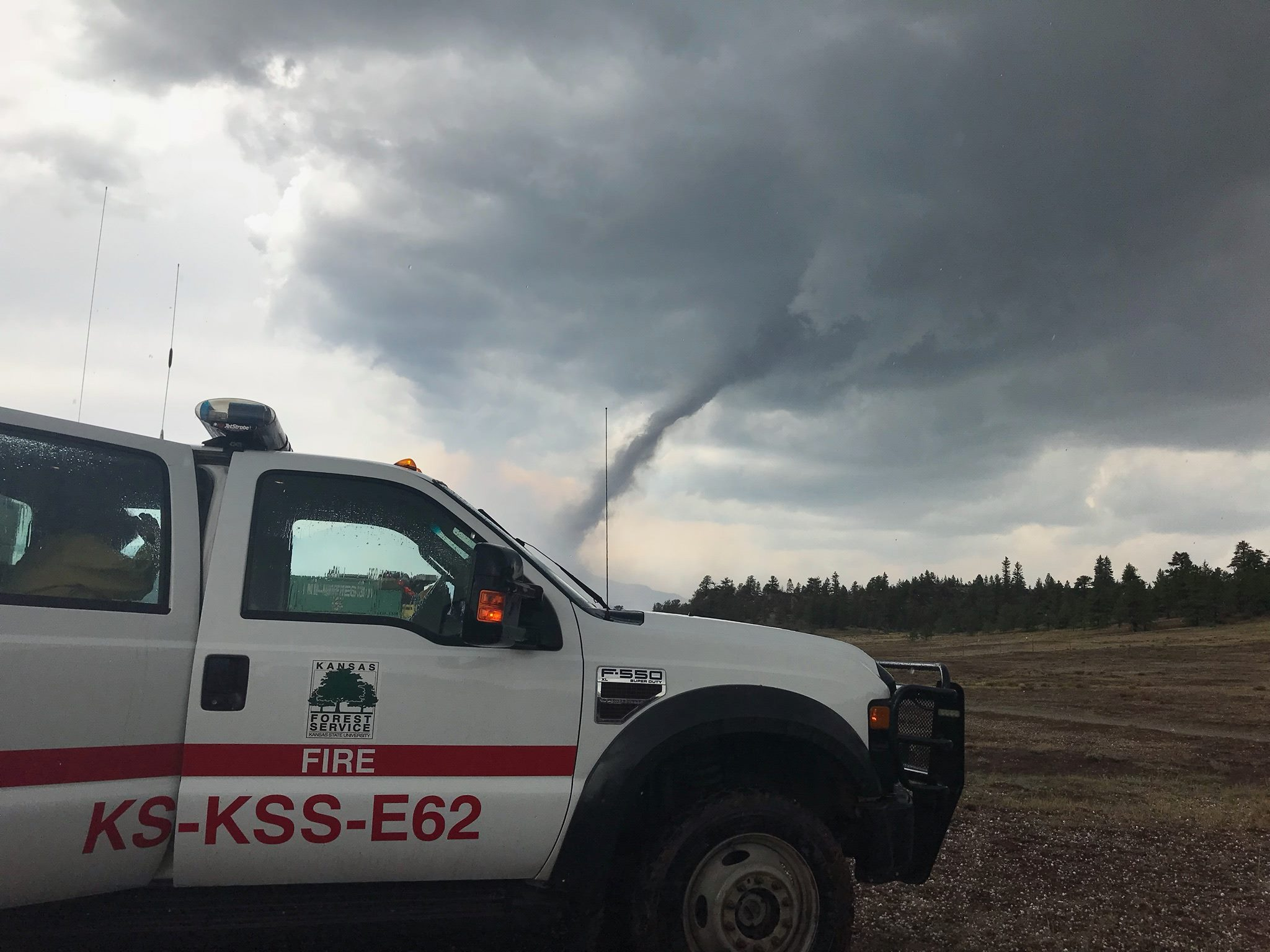 A Kansas Forest Service truck deployed to fight the Weston Pass Fire in Colorado, is forced to pause on July 5 as a tornado passes outside the town of Fairplay.